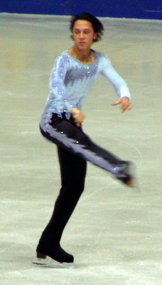 Johnny Weir at the World championships 2004 in Dortmund in Germany